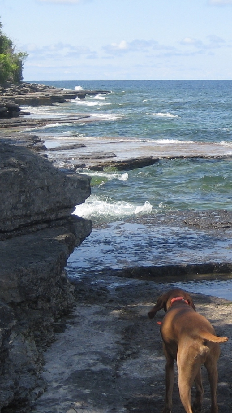 beach at Wehle State Park, NY